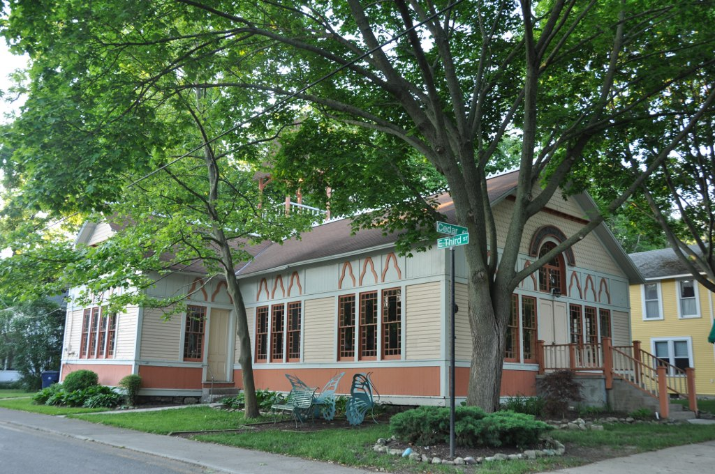 One of the meeting houses in the gated summer community of Lakeside, a national historic district.